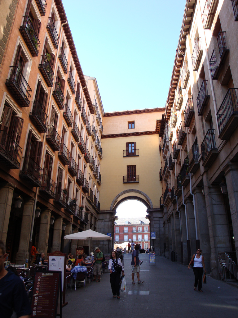 Entry to Plaza Mayor de Madrid